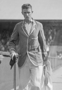 Australian tennis player Regnar Olaf Cummings